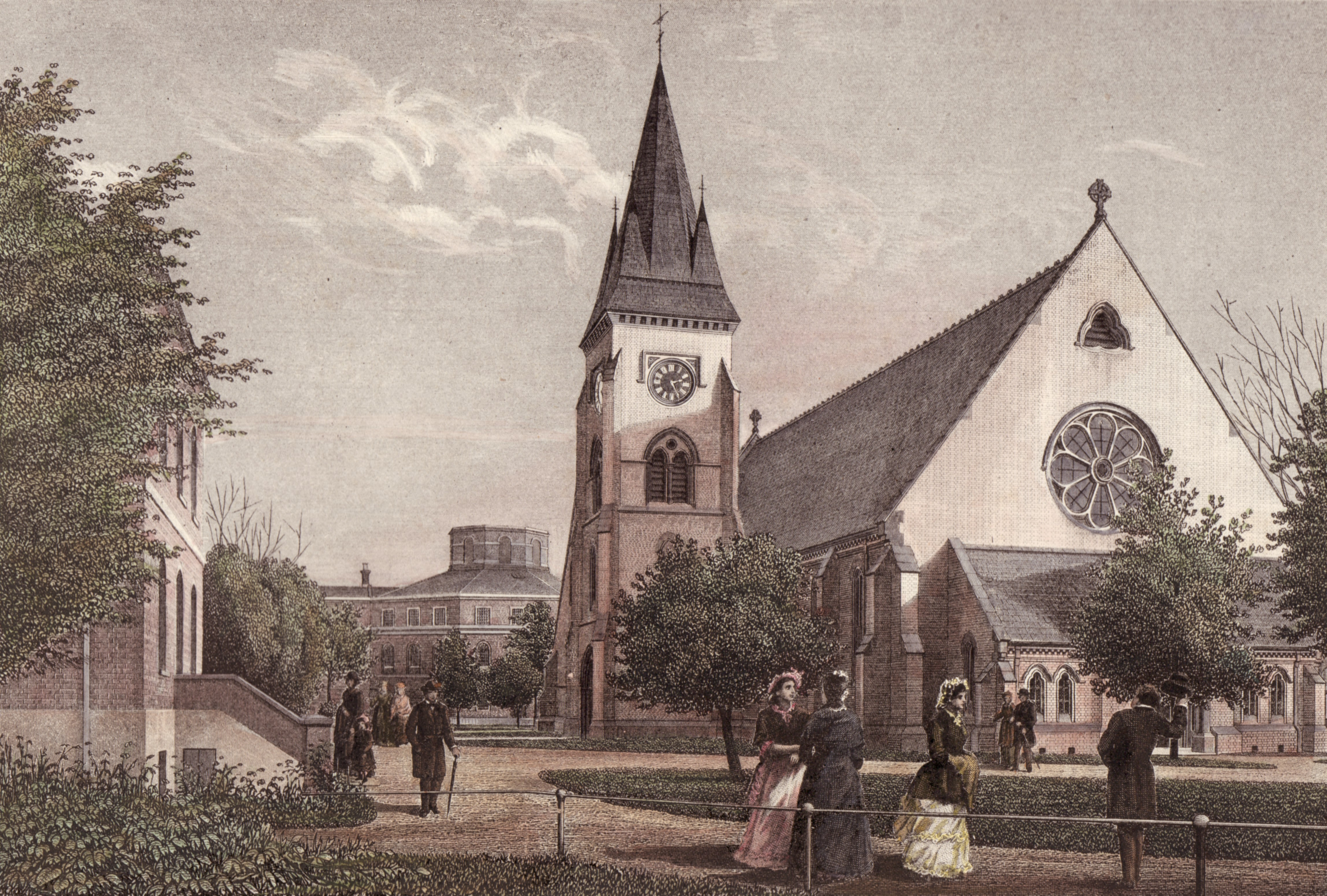 Hanwell Asylum c.1875 Looking east with the CE Chapel in middle distance. The panopticon of the male wing is in the background . The female superintendent's house is on the left. Position of observer is just to the west of the main drive and on the north side of the main building. Scanned by self from original print taken from Cassell's Greater London.